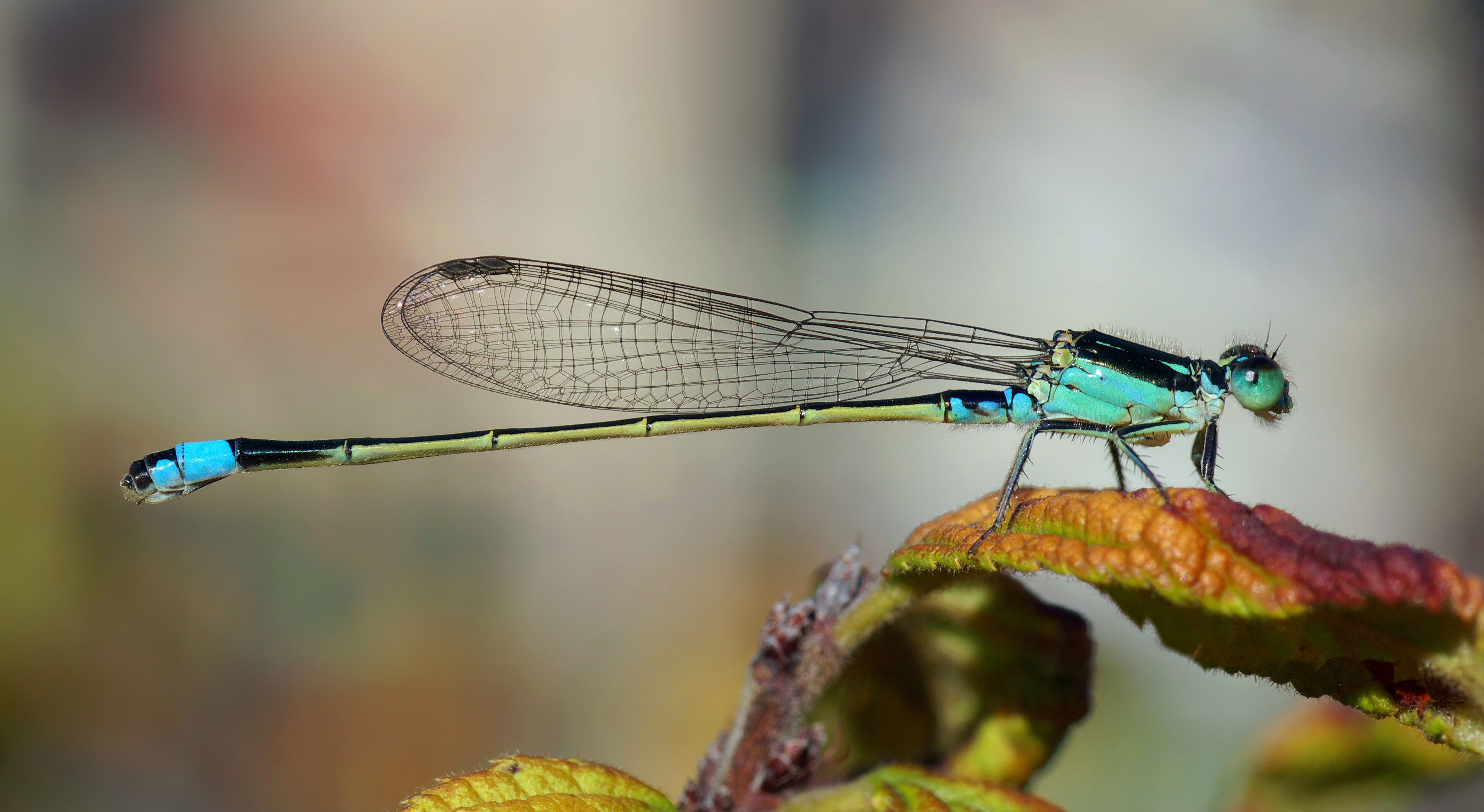 Common Bluetail, a widespread damselfly in Africa, the Middle East, Southern and Eastern Asia.